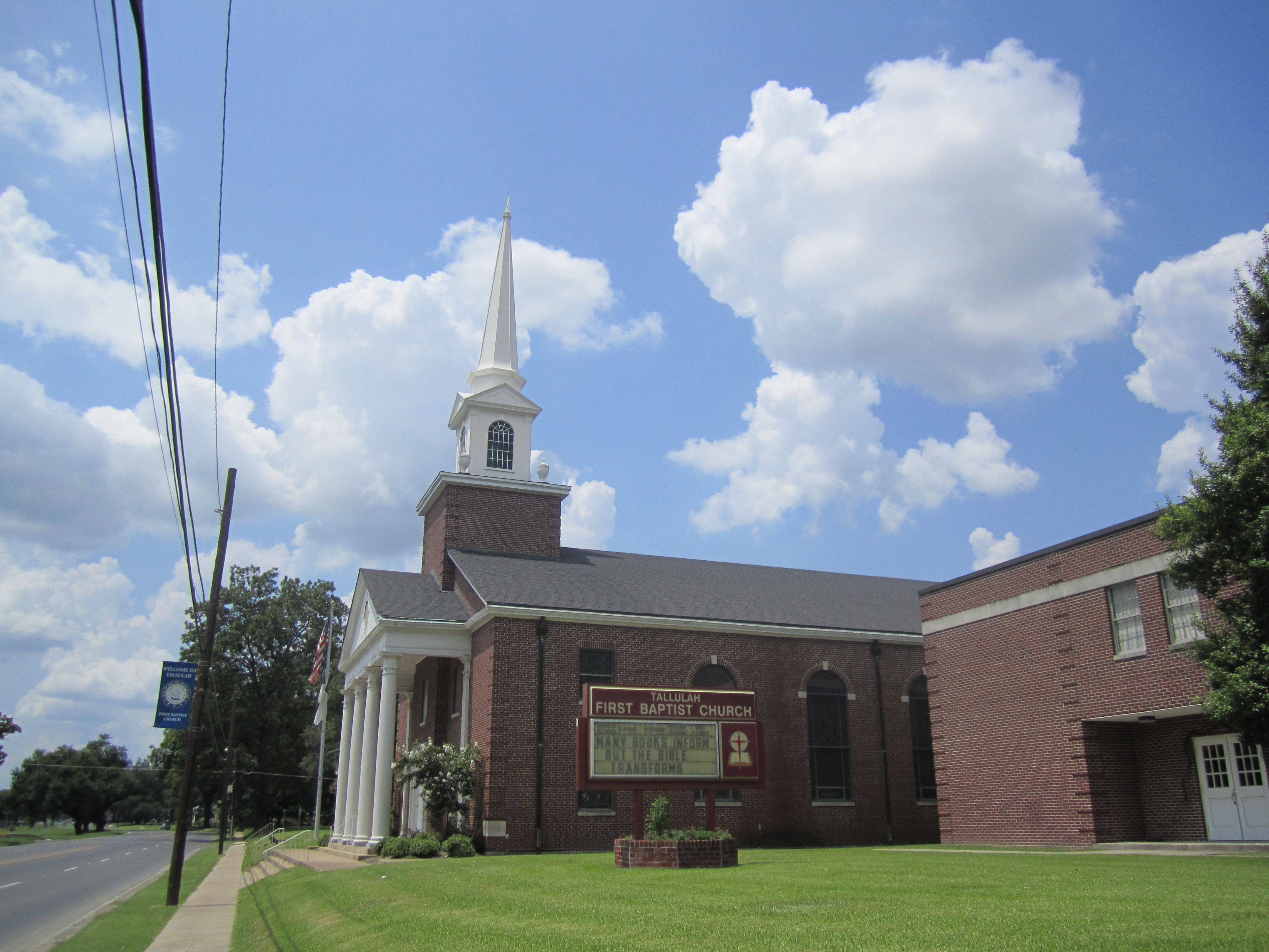 I took photo with Canon camera in Tallulah, LA.